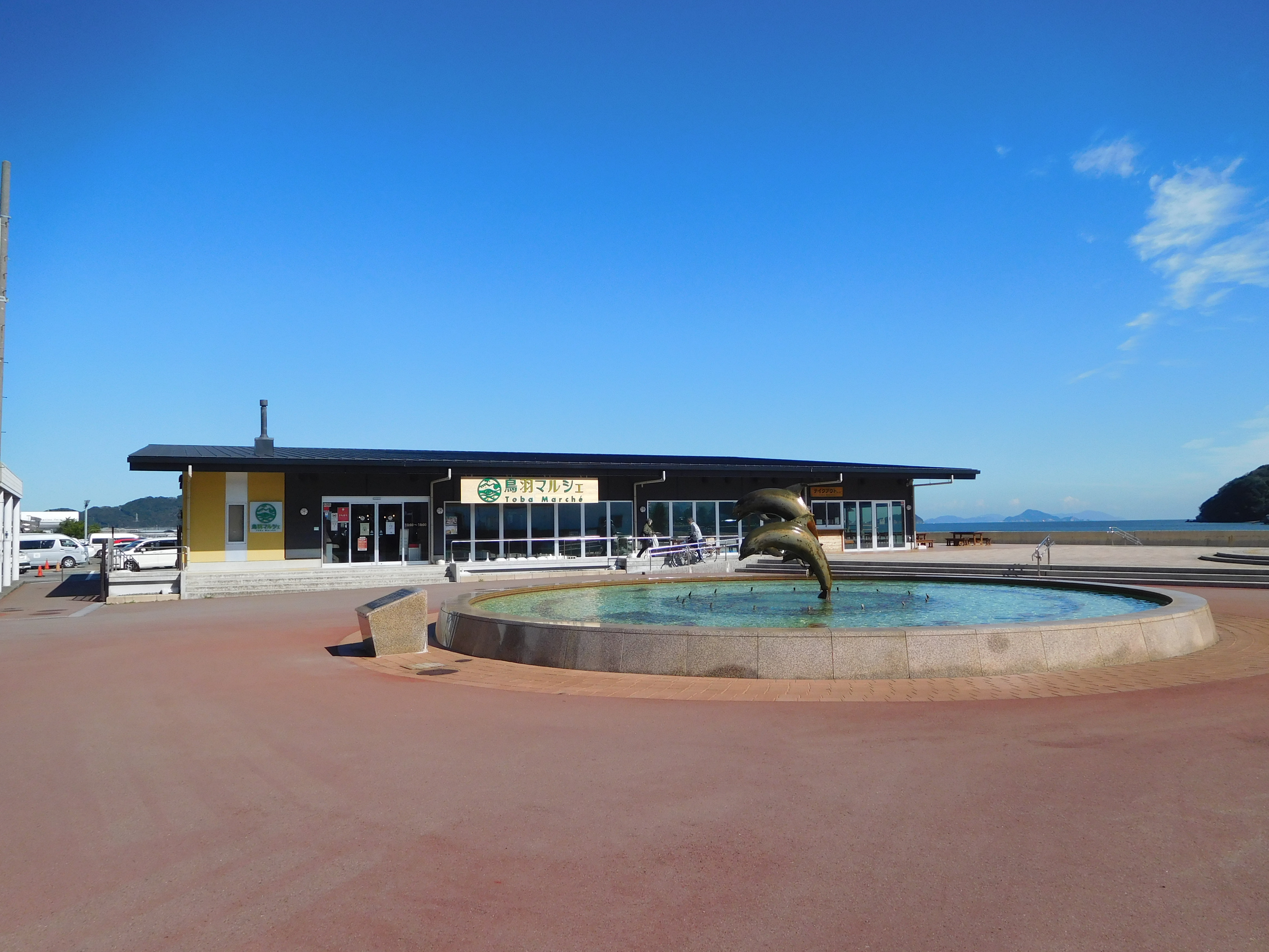 This is Toba Marché in Toba, Mie, Japan.